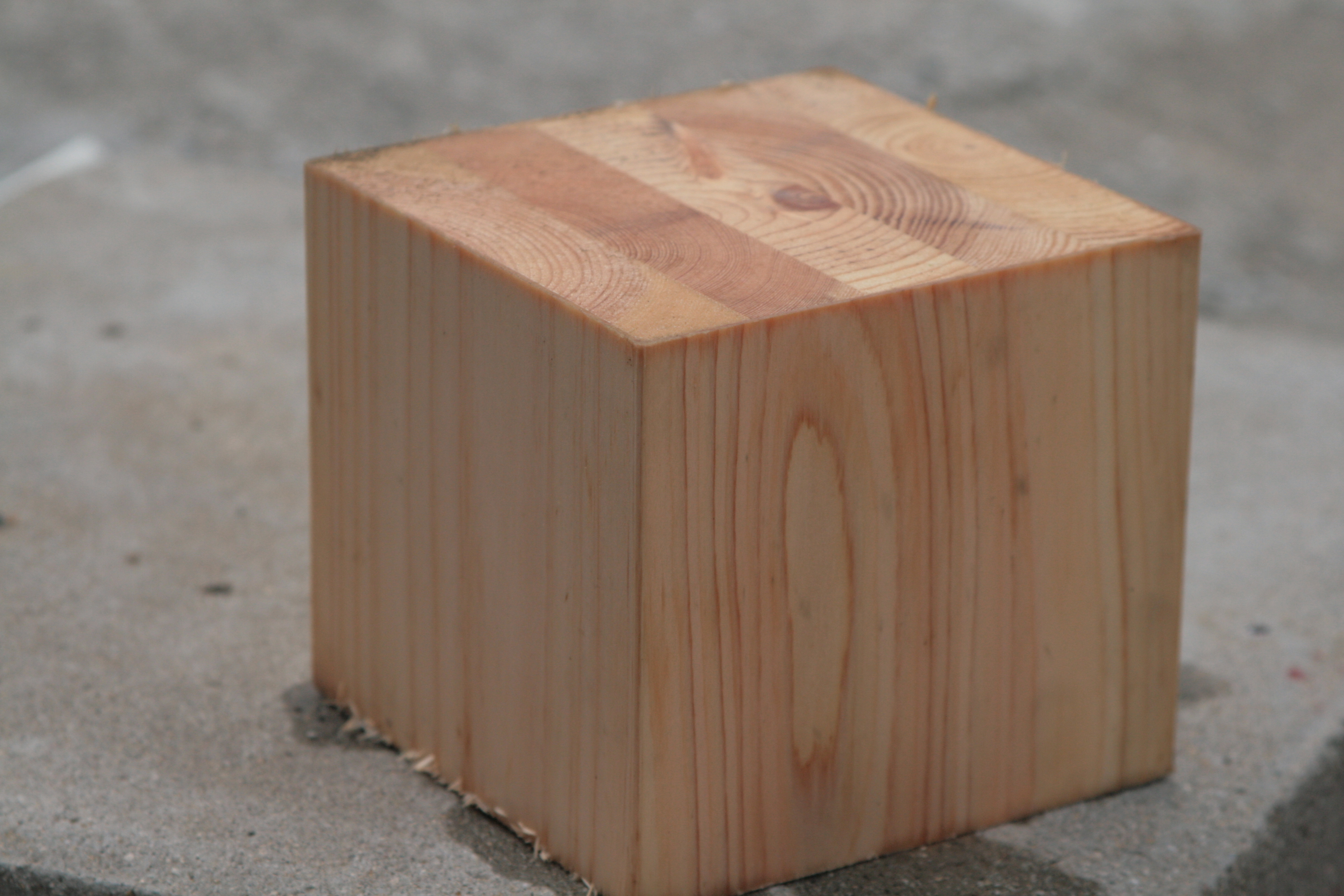 Fake＿Innocence＿Column